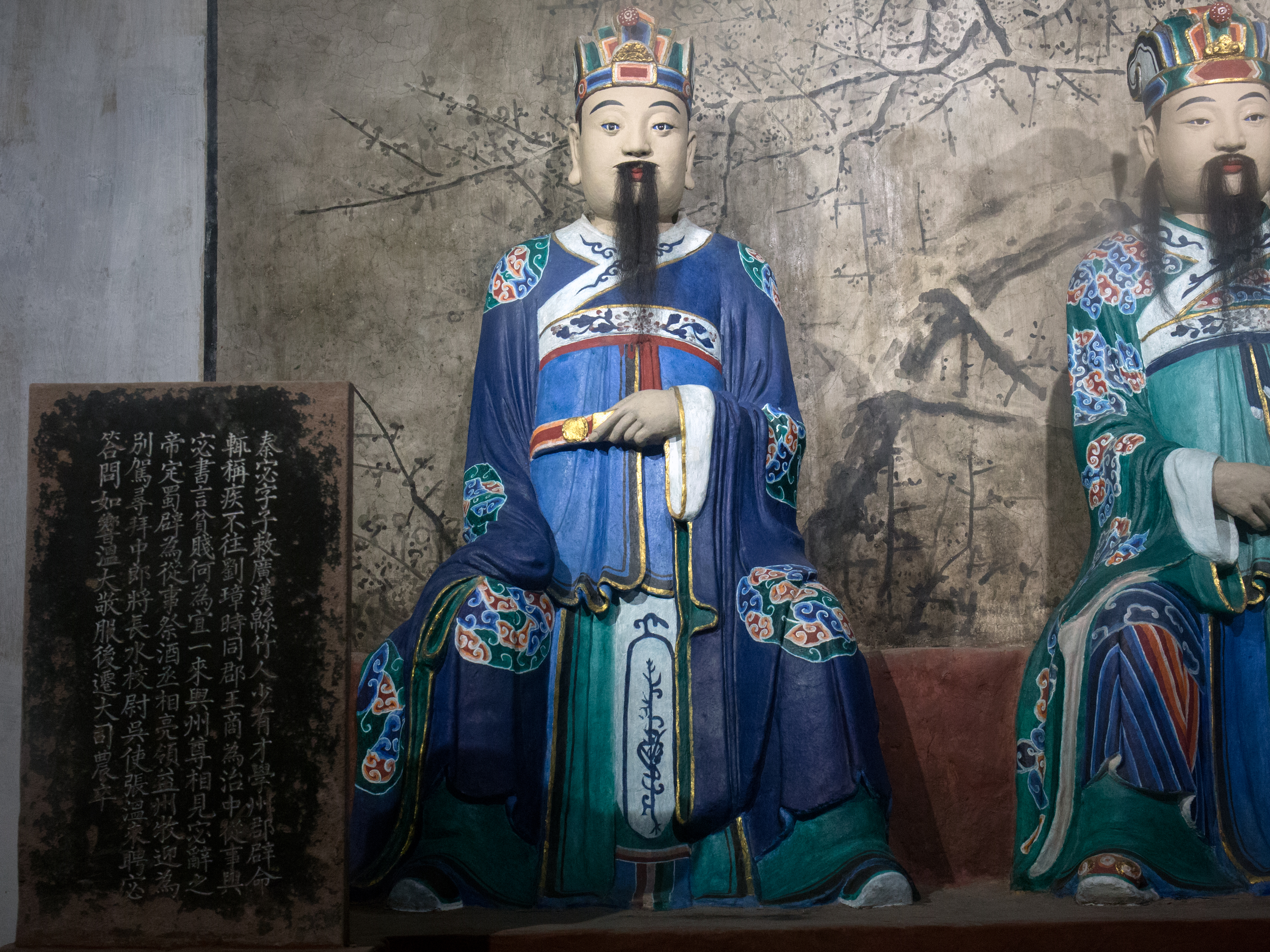 Qin Mi (秦宓)